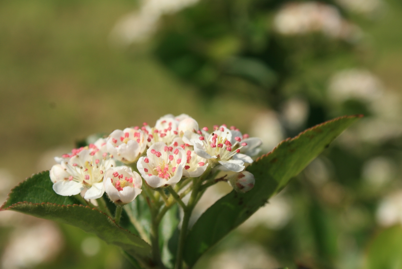 Aronia melanocarpa: Flowers